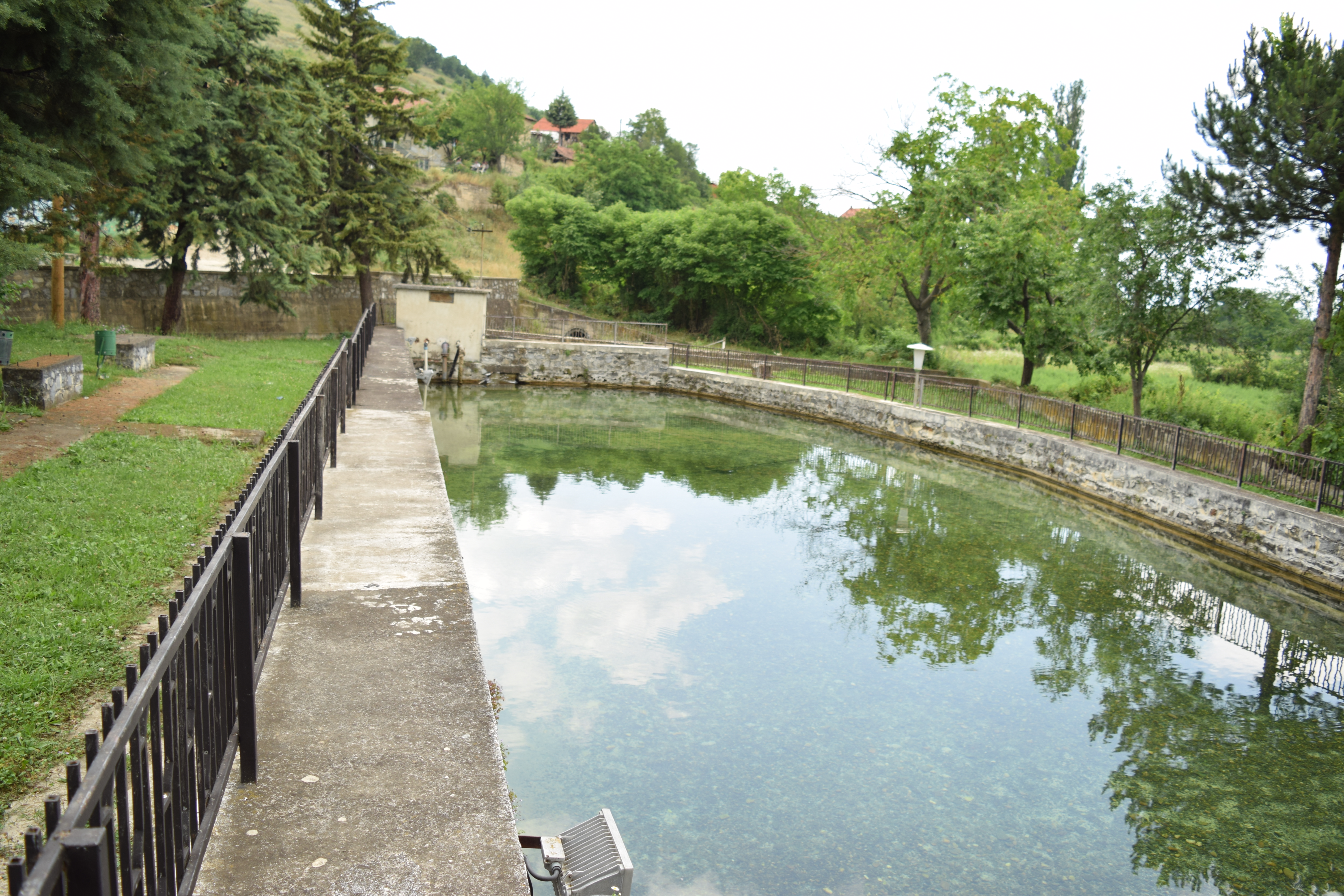 Small lake in the center of the village Izvor